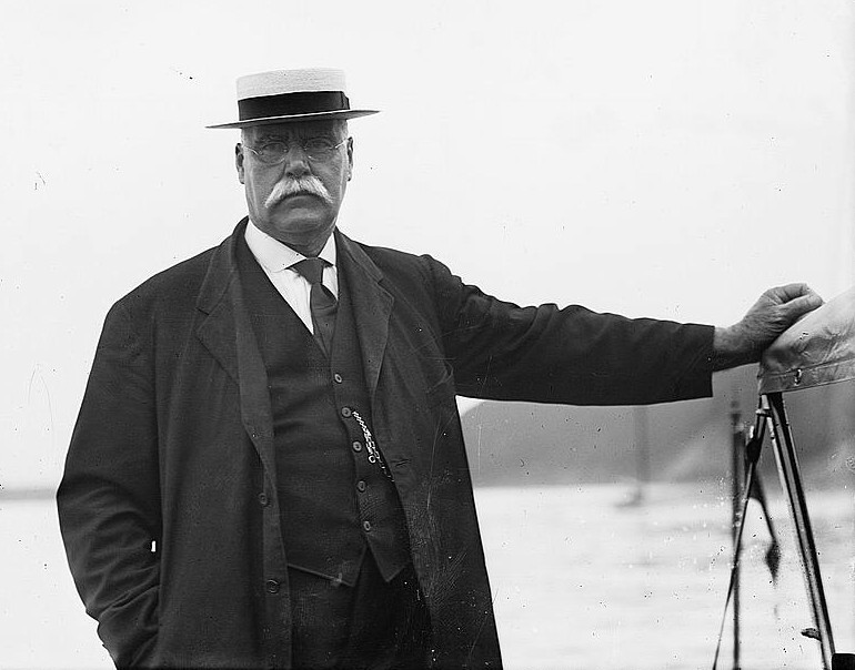 American rower and rowing coach Charles Courtney